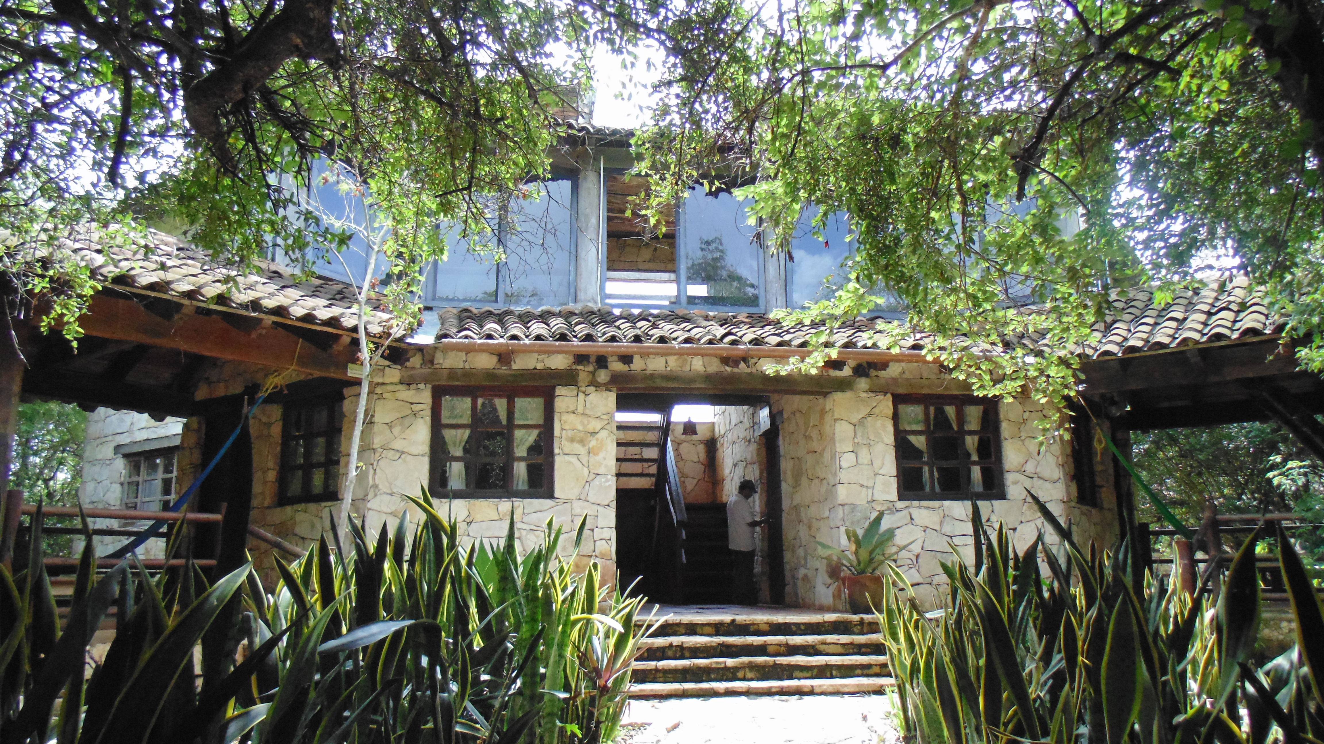 Facade of the cabins for visitors, inside the ecological park of Sima de las Cotorras, Ocozocoautla, Chiapas, Mexico.